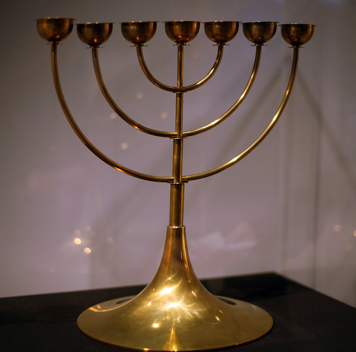 Seven-branch Candelabrum Menorah Gyula Pap, Hungarian, 1889-1983 Bauhaus, Weimar (Germany), 1922 Brass 16 1/2 x 16 7/8 in. (41.9 x 42.9 cm) The Jewish Museum, New York Purchase: Hubert J. Brandt Gift in honor of his wife, Frances Brandt; Judaica Acquisitions Fund; Mrs. J.J. Wyle, by exchange; Peter Cats Foundation, Helen and Jack Cytryn, and Isaac Pollak Gifts, 1991-106 Wikipedia Loves Art at the Jewish Museum (New York City) This photo of item # 1991-106 at the Jewish Museum (New York City) was contributed under the team name "shooting_brooklyn" as part of the Wikipedia Loves Art project in February 2009. Jewish Museum (New York City) The original photograph on Flickr was taken by shooting brooklyn—please add a comment to the original Flickr page whenever a use has been made on Wikipedia or another project. Project galleries on Flickr: this institution, this team